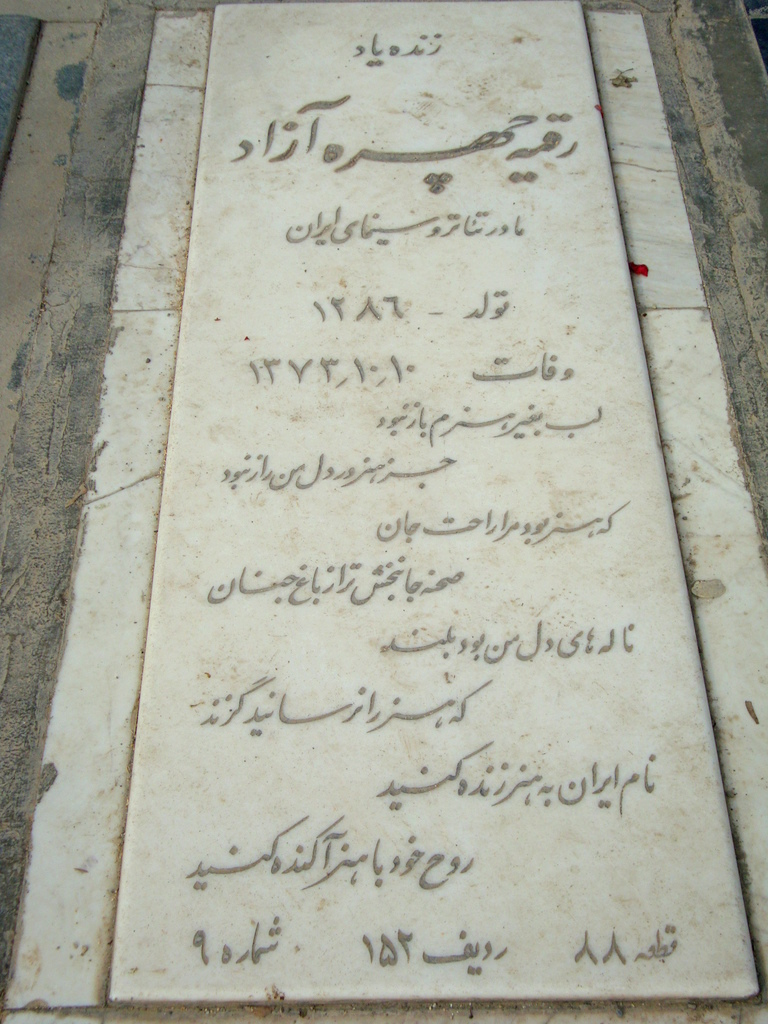 Roghye Chehre azad's tomb, Beheshte Zahra cemetery, Tehran